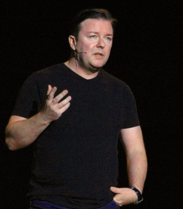 Comedian and actor Ricky Gervais performing at Borough of Manhattan Community College in 2007.